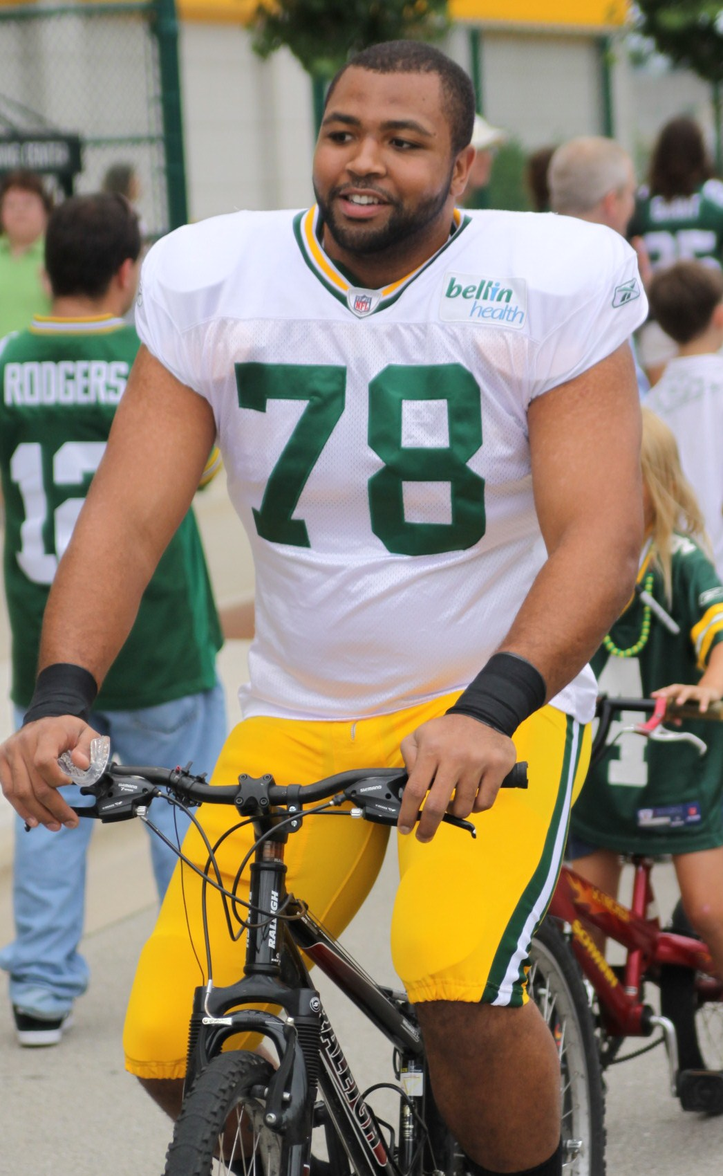 Derek Sherrod riding a fan’s bicycle at the Green Bay Packers pre-season training camp, Green Bay, Wisconsin, August 1, 2011